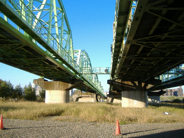 Spot of Emperor Showa assassination attempt by East Asia Anti-Japan Armed Front(Arakawa Bridge of JR Tohoku Line)